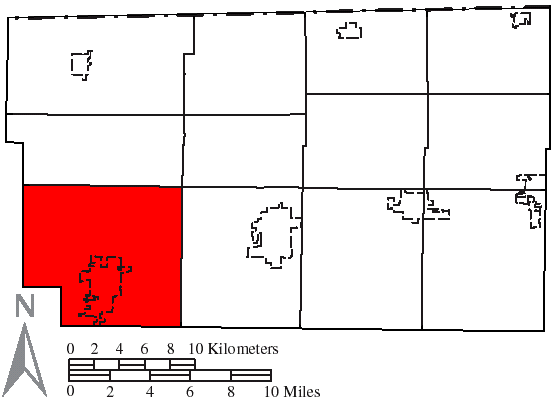 Made by the US Census and modified by myself